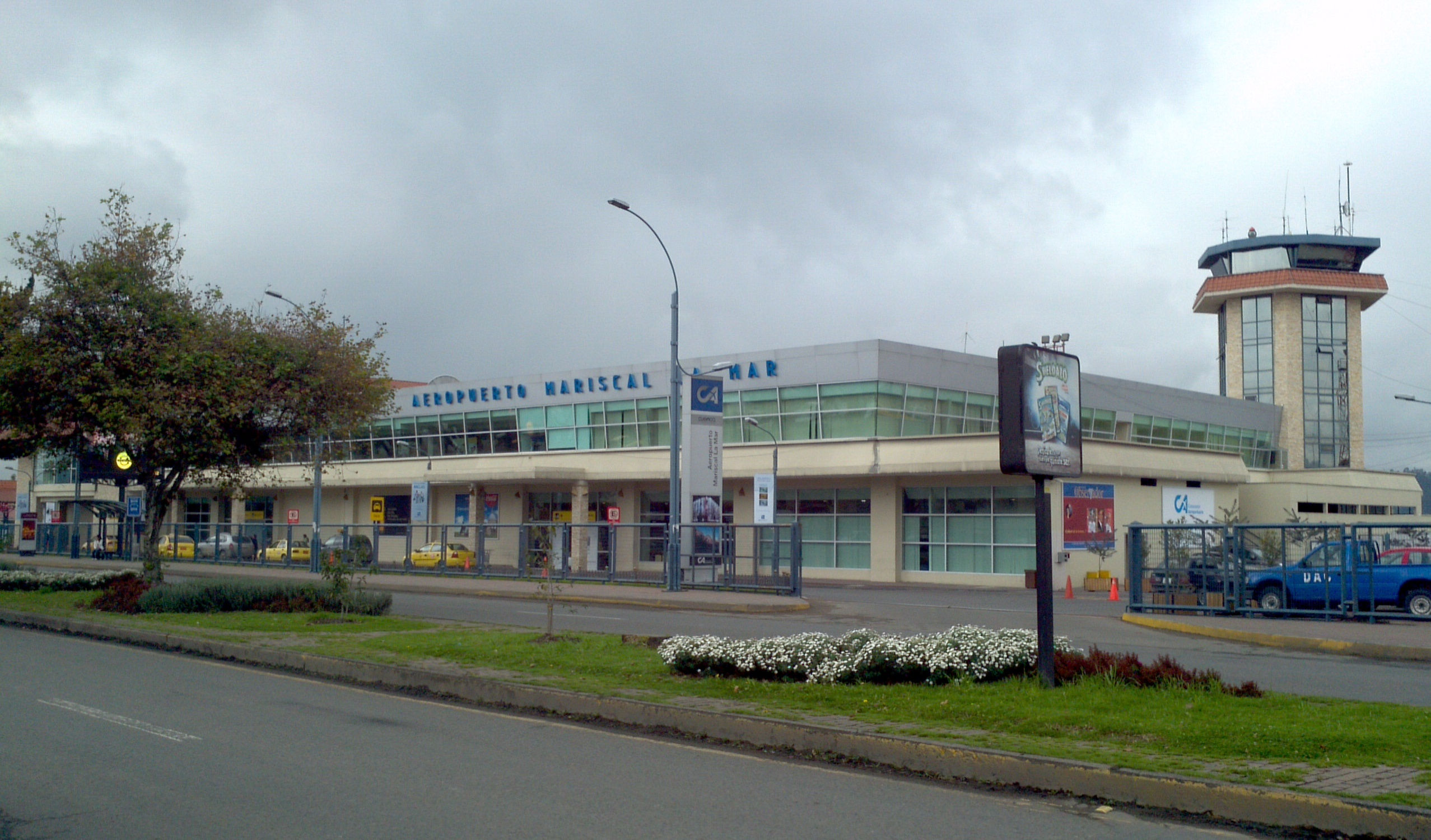 Mariscal Lamar Airport lacated in Cuenca, Ecuador.